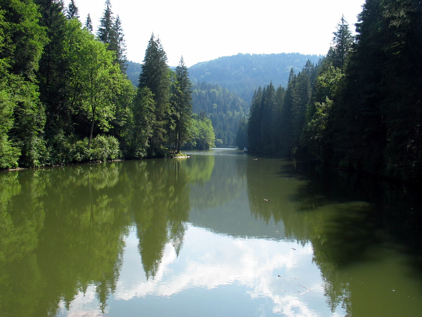 Storage power plant Langmann at the river Teigitsch in Styria / Austria / European Union.